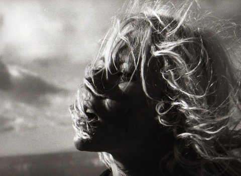 Daria (second wife of Gian Pietro Calasso) in the Grand Canyon